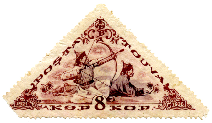 8-kopeck stamp of 1936 from Tuvinian People's Republic